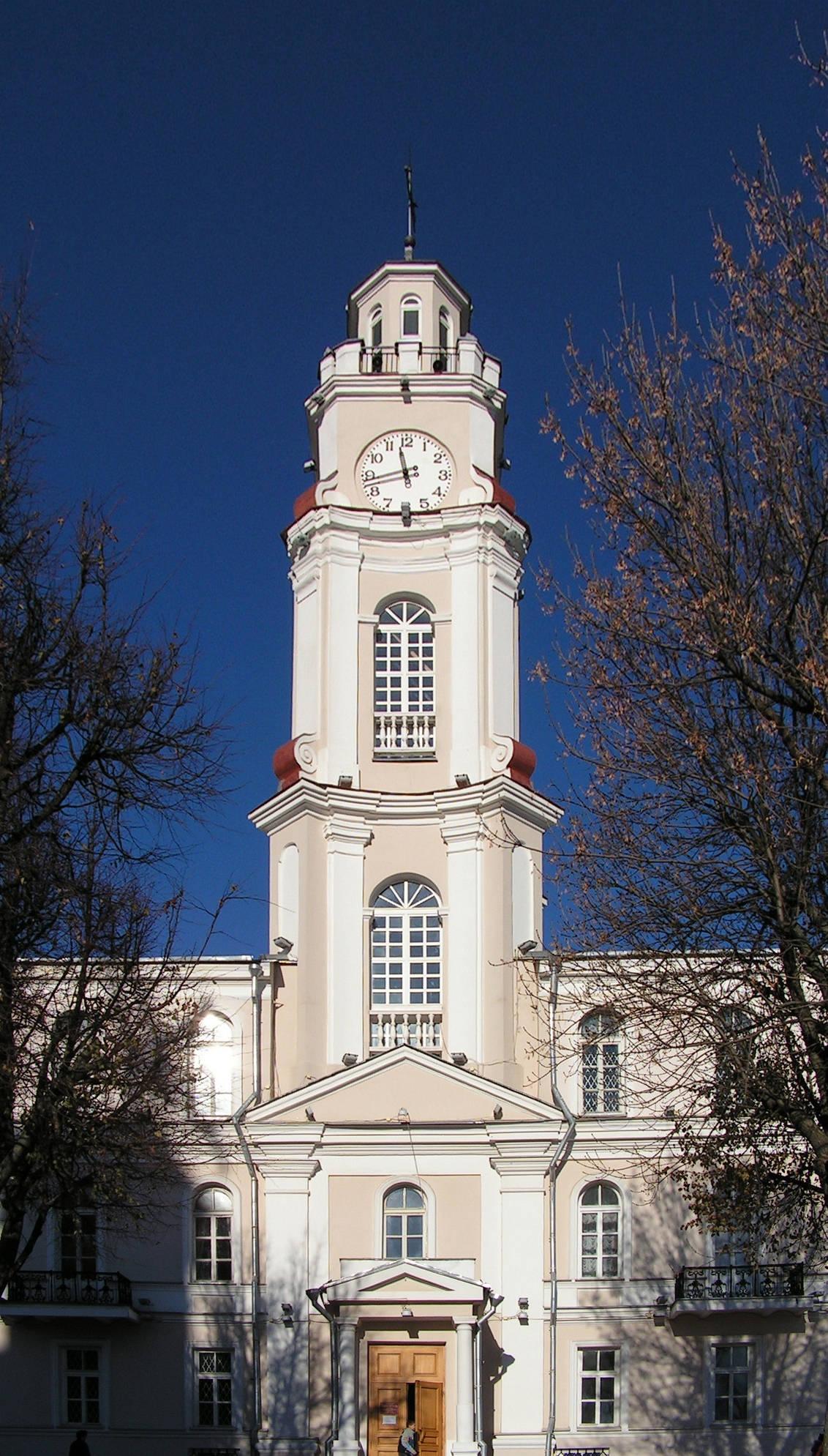 Andron Holmoff,October 2005, Photo of the Ex-cityhall(Ratusha). Now - Museum of Vitebsk's history. Vitsebsk, Belarus.